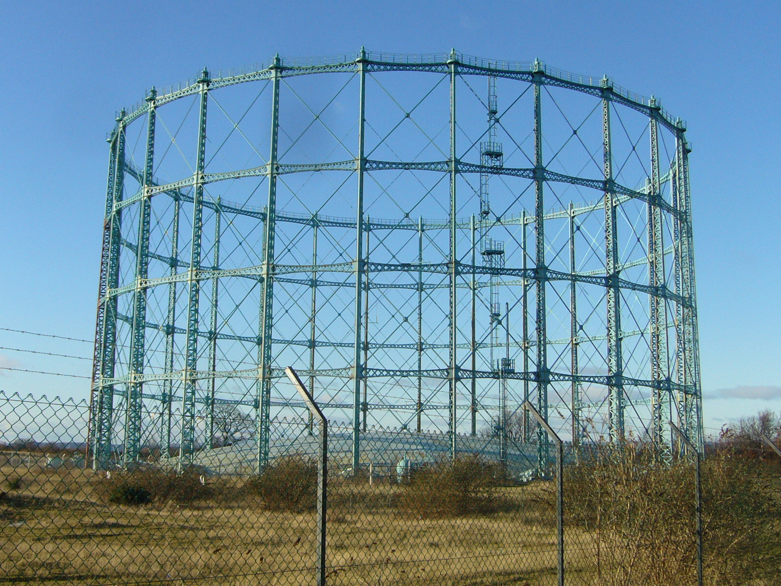 One of three gasholders which stood on the former site of the Granton Gasworks. Two have been demolished to clear the way for the planned Edinburgh Waterfront Project. This one has been conserved because of its listed structure status.